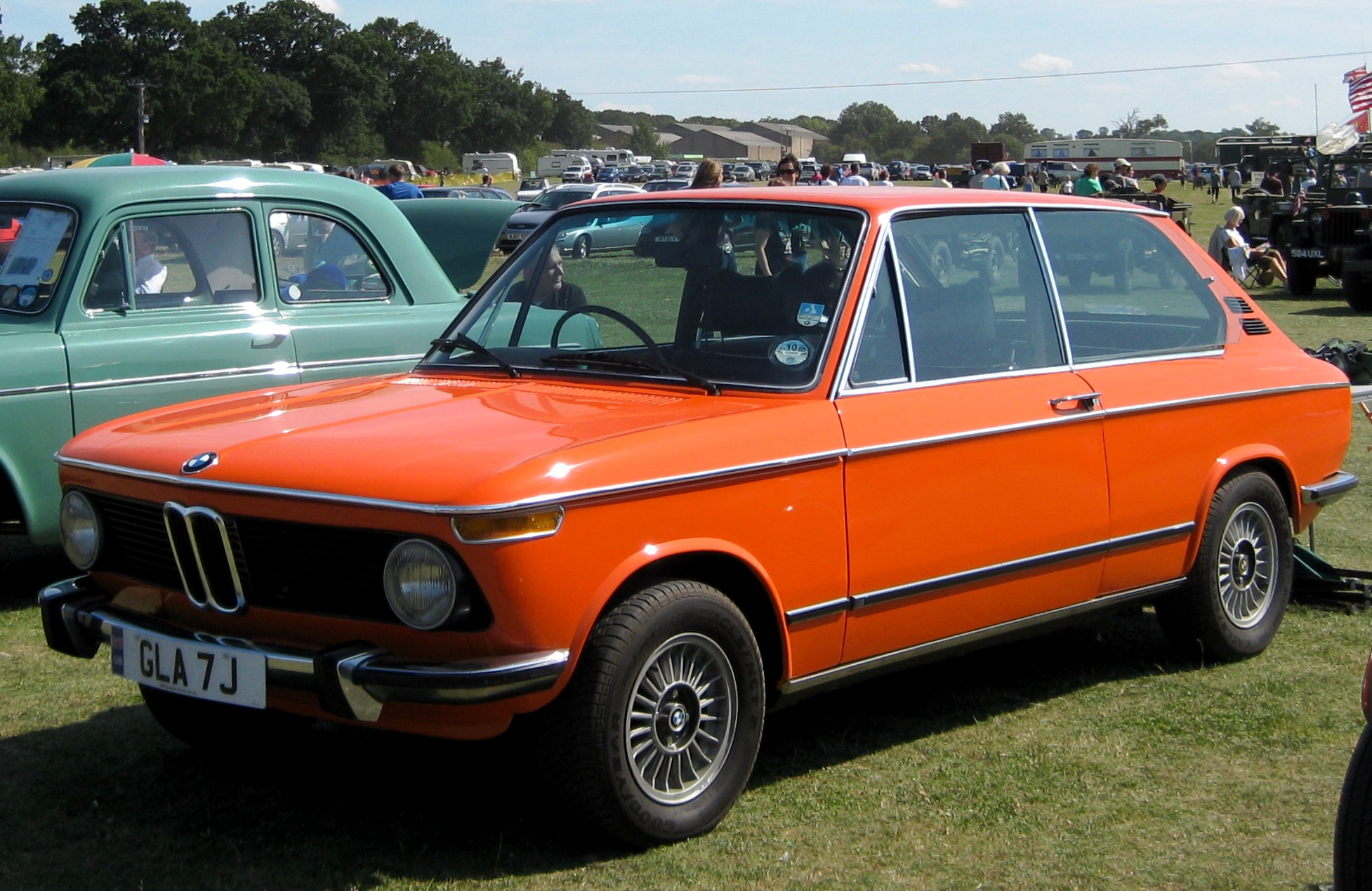 BMW 2000 Touring near Bury St Edmunds